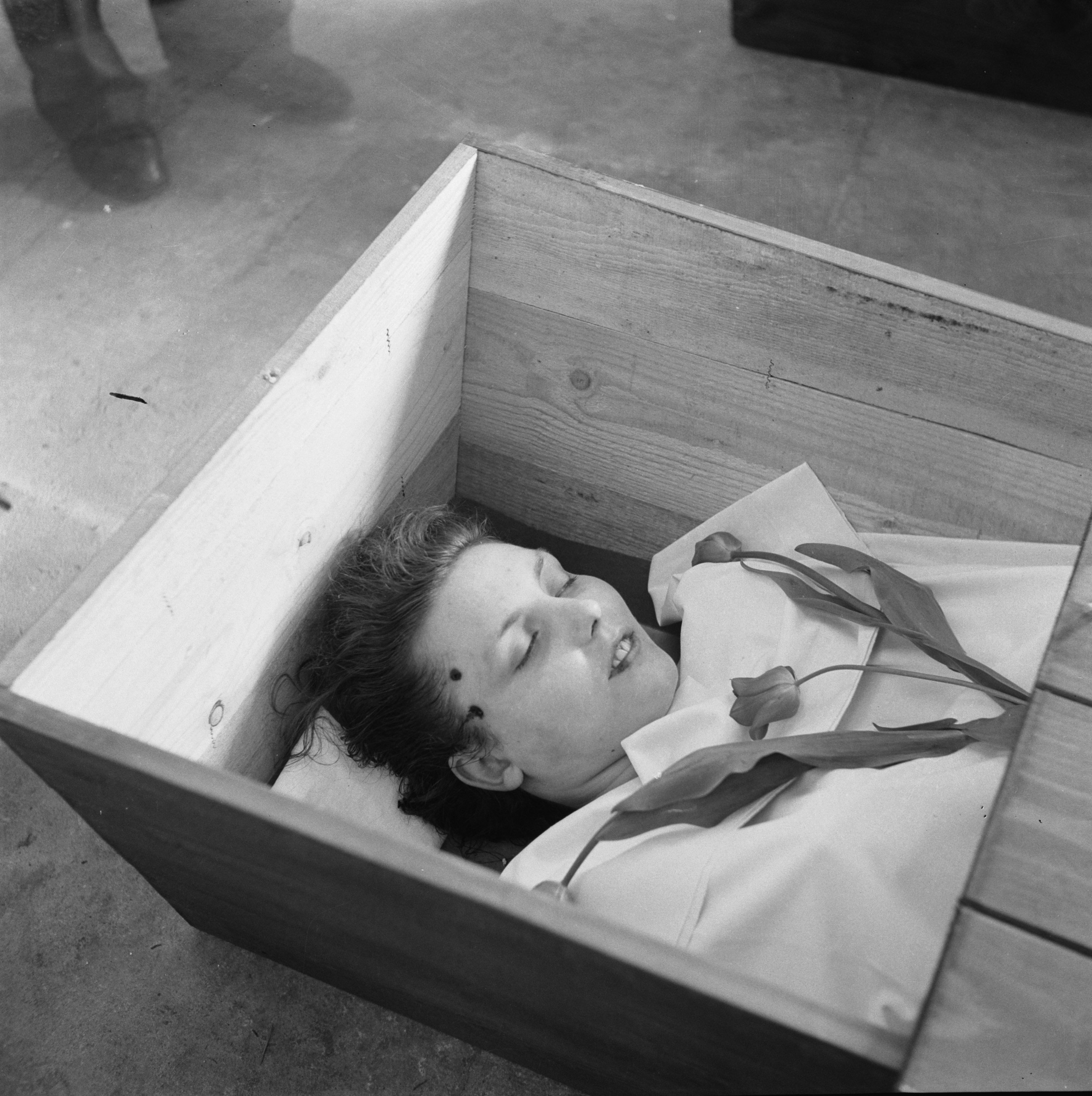 Killed resistance fighter Corry van Baalen-Bosch laid out in the Grote Kerk in Deventer, together with her newly married husband Jos van Baalen executed after the Twentoldrama.